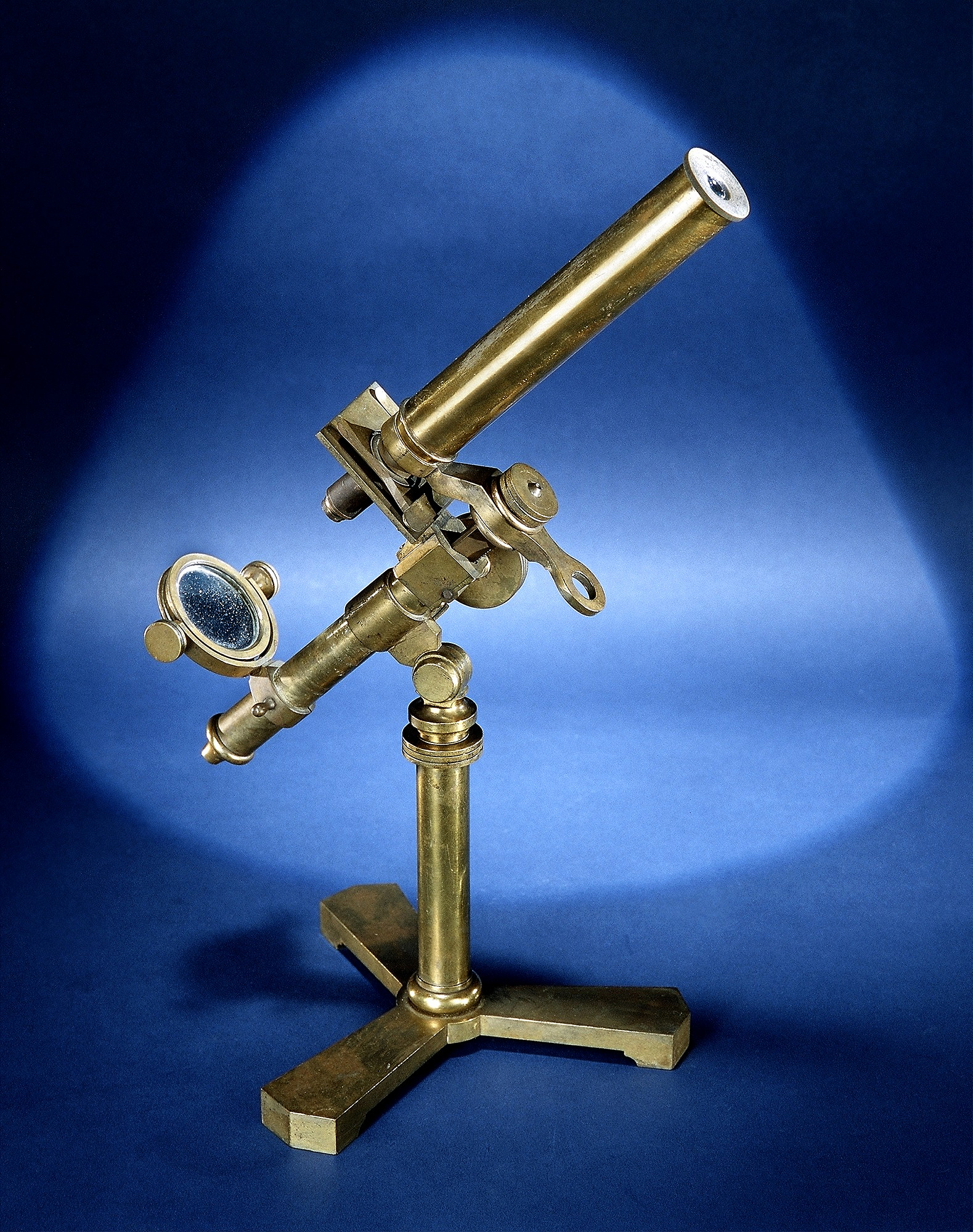 Brass & Glass, made circa 1849-1859 by C. A. & H. Spencer, United States: New York, Canastota